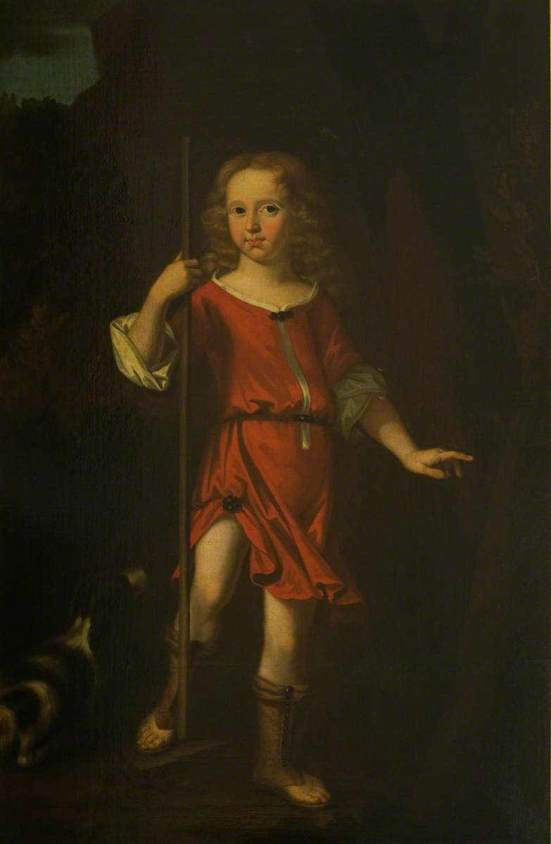 James Erskine, 2nd Lord Grange, 2nd son of Charles, 5th Earl of Mar, as a boy, full-length, in classical dress holding a staff in his right hand, with his dog. " In my view this is an early painting by John Scougall, just like the painting of his brother John Erskine, 6th Earl of Mar, as a Boy. Full length paintings by John Scougall are very rare and these are lovely examples of his early, strong mature period. Among the paintings at Alloa Tower there is a fine group of paintings by the Scougall painters, mainly by John Scougall. They show a continued patronage of the Earls of Mar for the Scougalls, particularly in the 1680s." Carla van de Puttelaar.